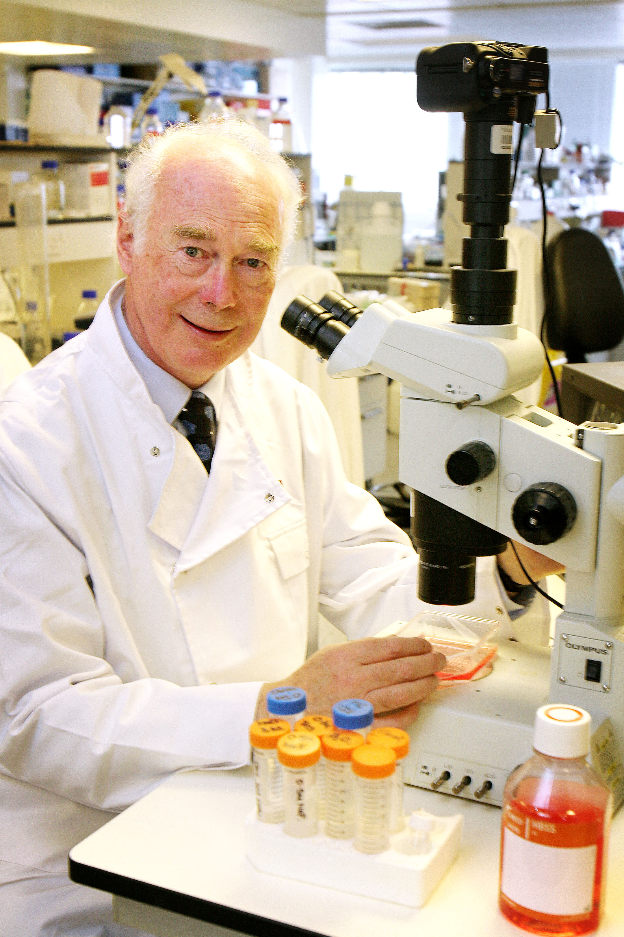 Sir Martin John Evans, British scientist, a co-winner of the Nobel Prize in Physiology or Medicine in recognition of his gene targeting work (2007)